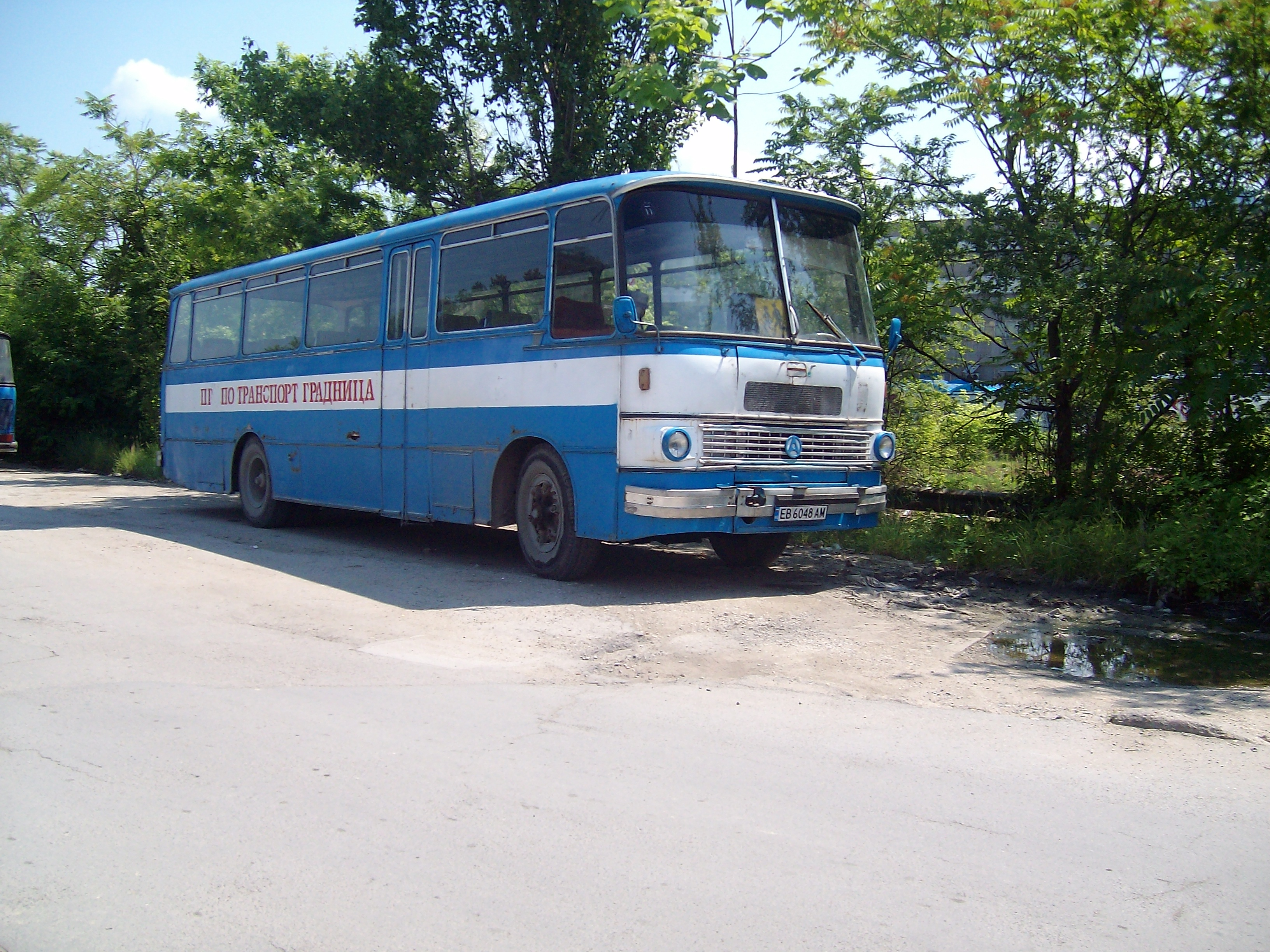 Czavdar bus (reg. EB 6048AM) in Bulgaria.